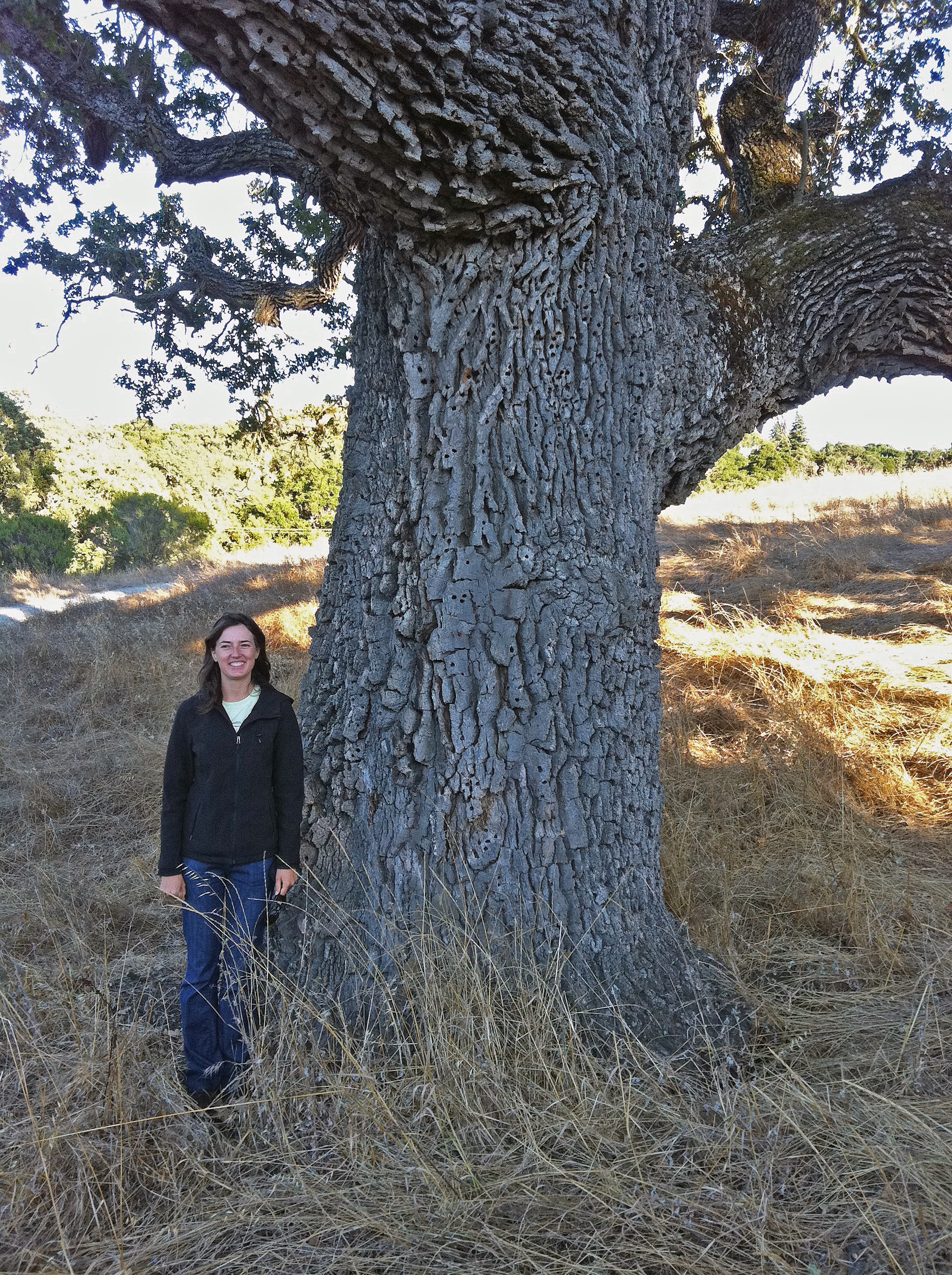 Joan Dudney, Acterra Steward for Pearson-Arastradero Preserve, stands next to "granary" Valley oak (Quercus lobata). Located just above Arastradero Lake in Palo Alto, California. Acorn woodpeckers store acorns in this 300+ year old tree.